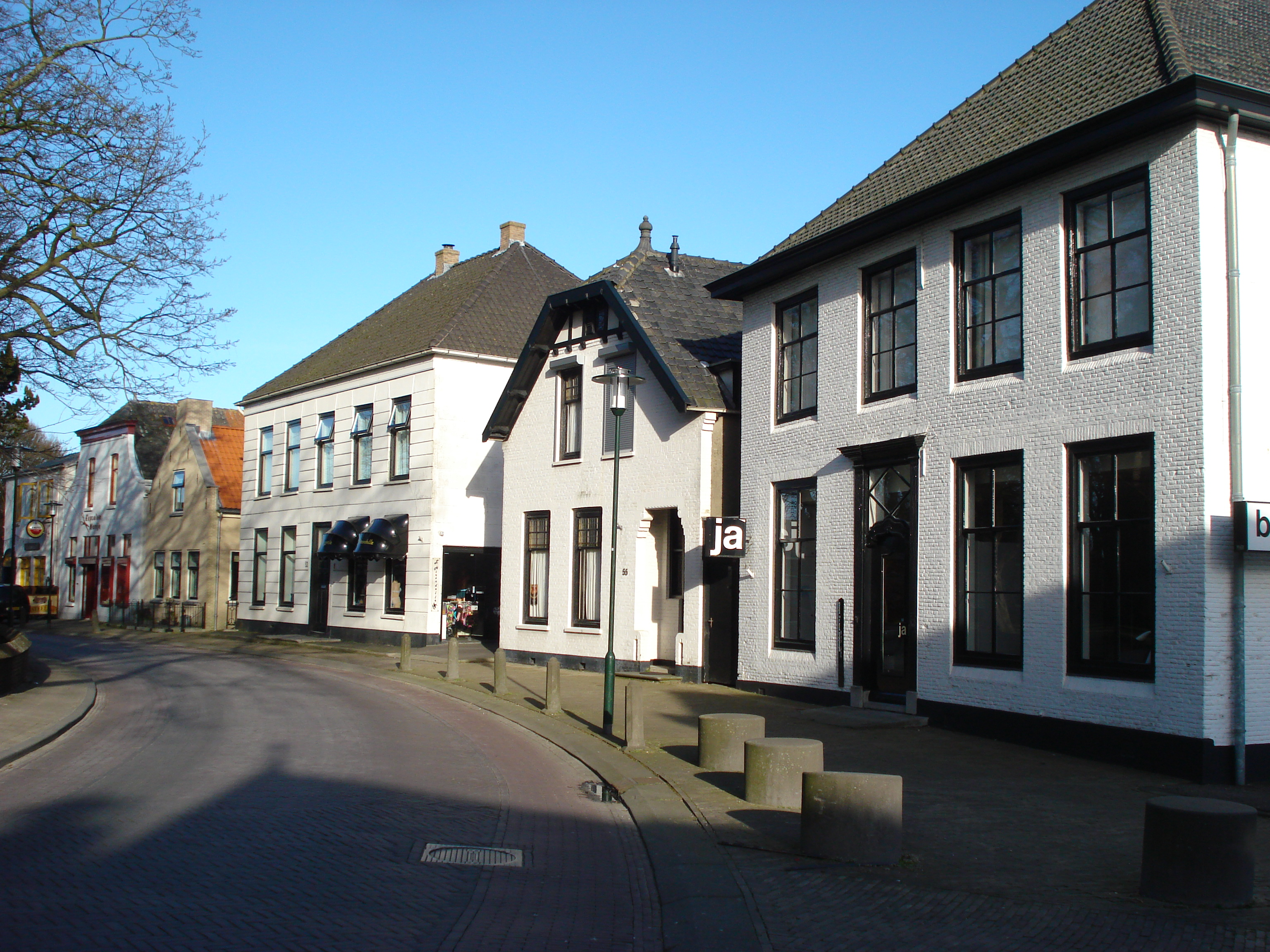 Kapelle (Zeeland, NL) houses on the Kerkplein ('church square')